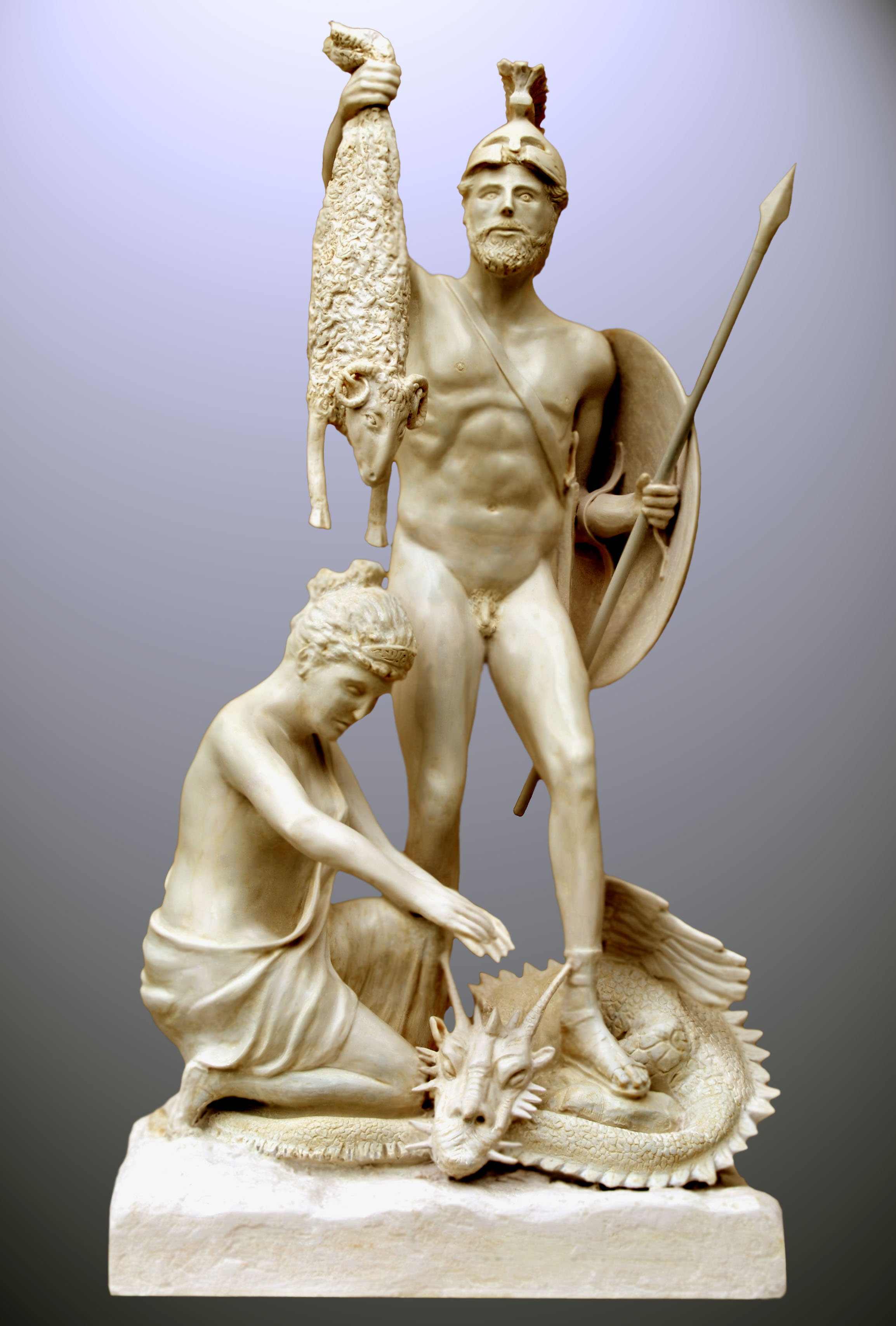 Synthetic marble sculpture of 116 for 60 and 44cm., By Jose Manuel Felix Magdalena.